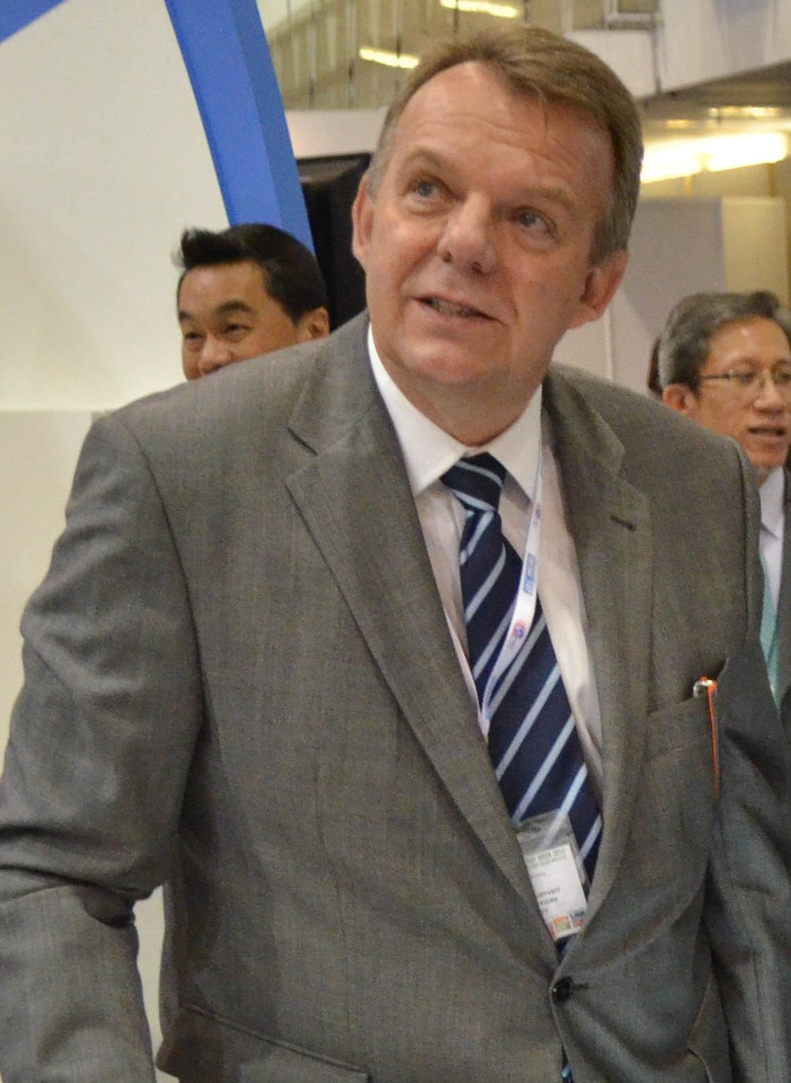 Torstein Dale Sjøtveit during International Energy Week (IEW) which was held at Borneo Convention Centre, Kuching, Sarawak from 16 to 18 October 2012.